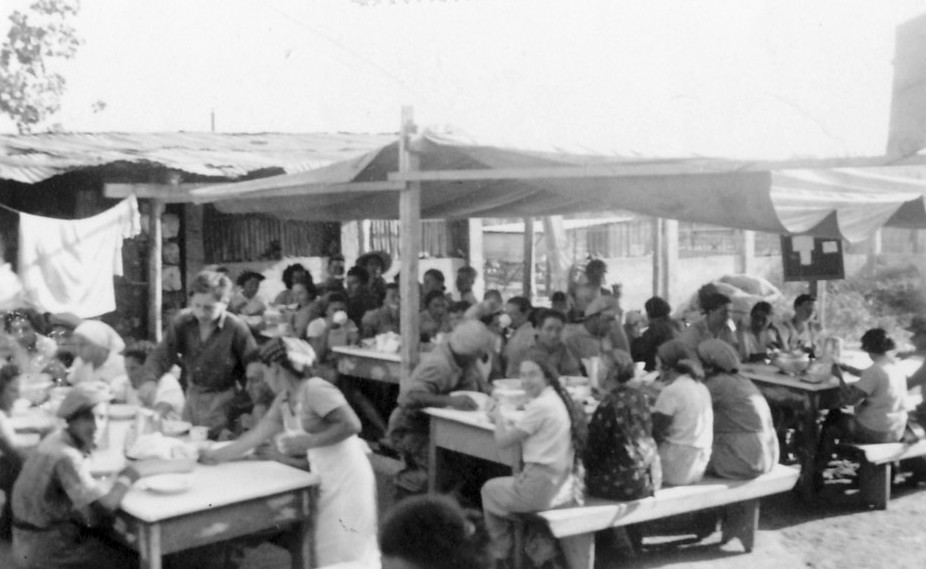 Gan - Samuel - 1953 - Temporary diningroom, Architecture of Israel